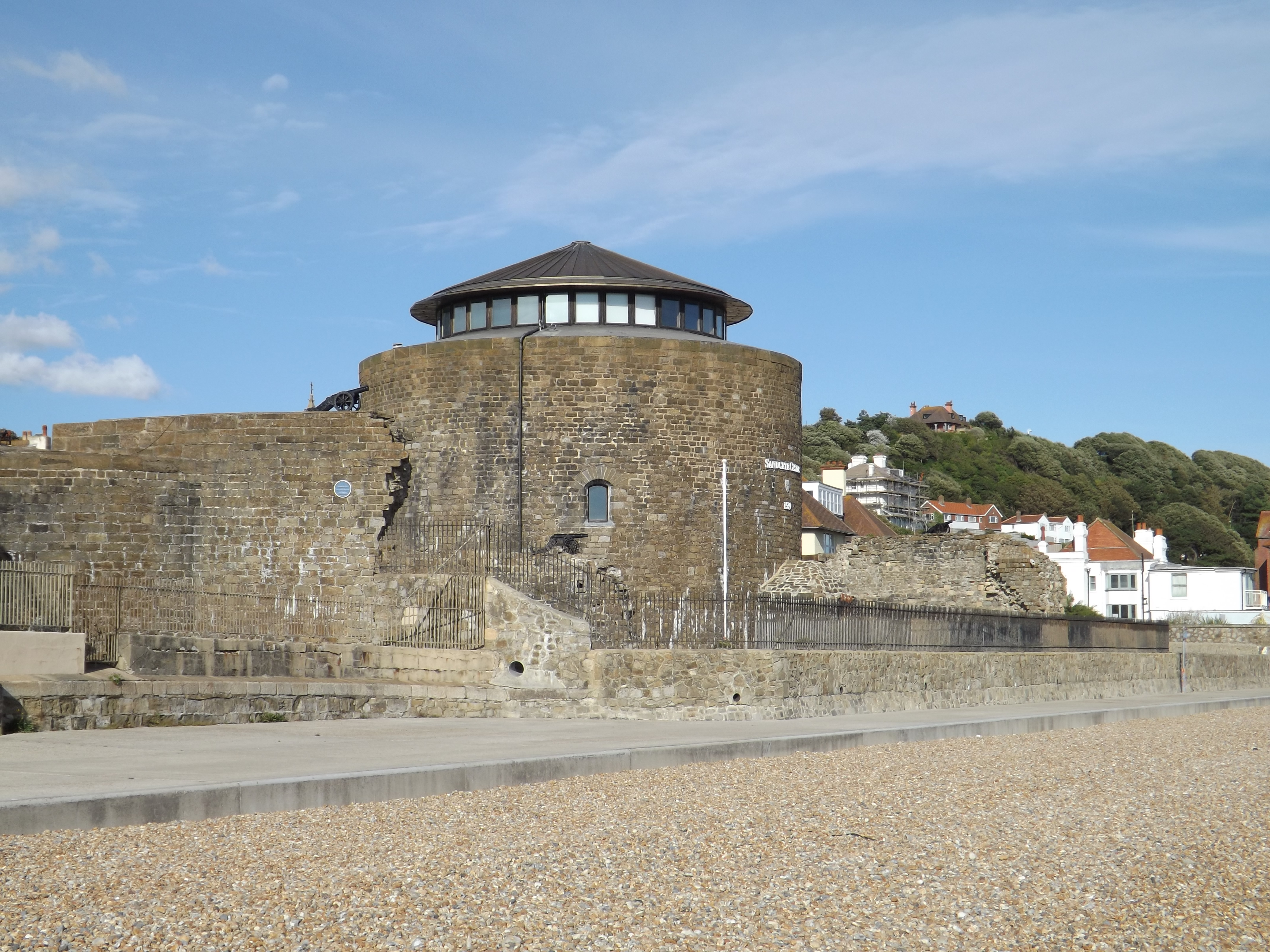 Sandgate Castle in September 2013